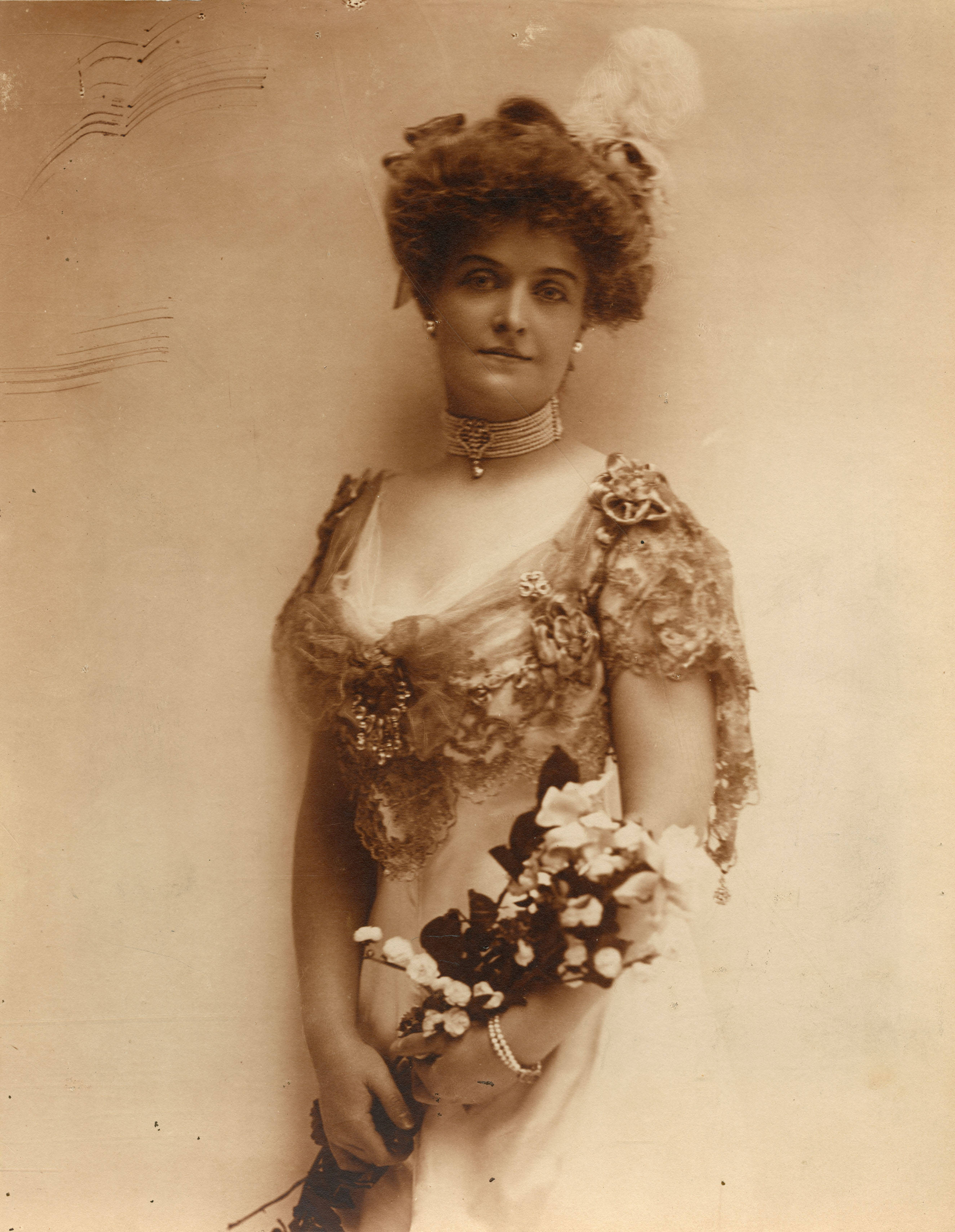 Isabel Irving Subjects: actresses